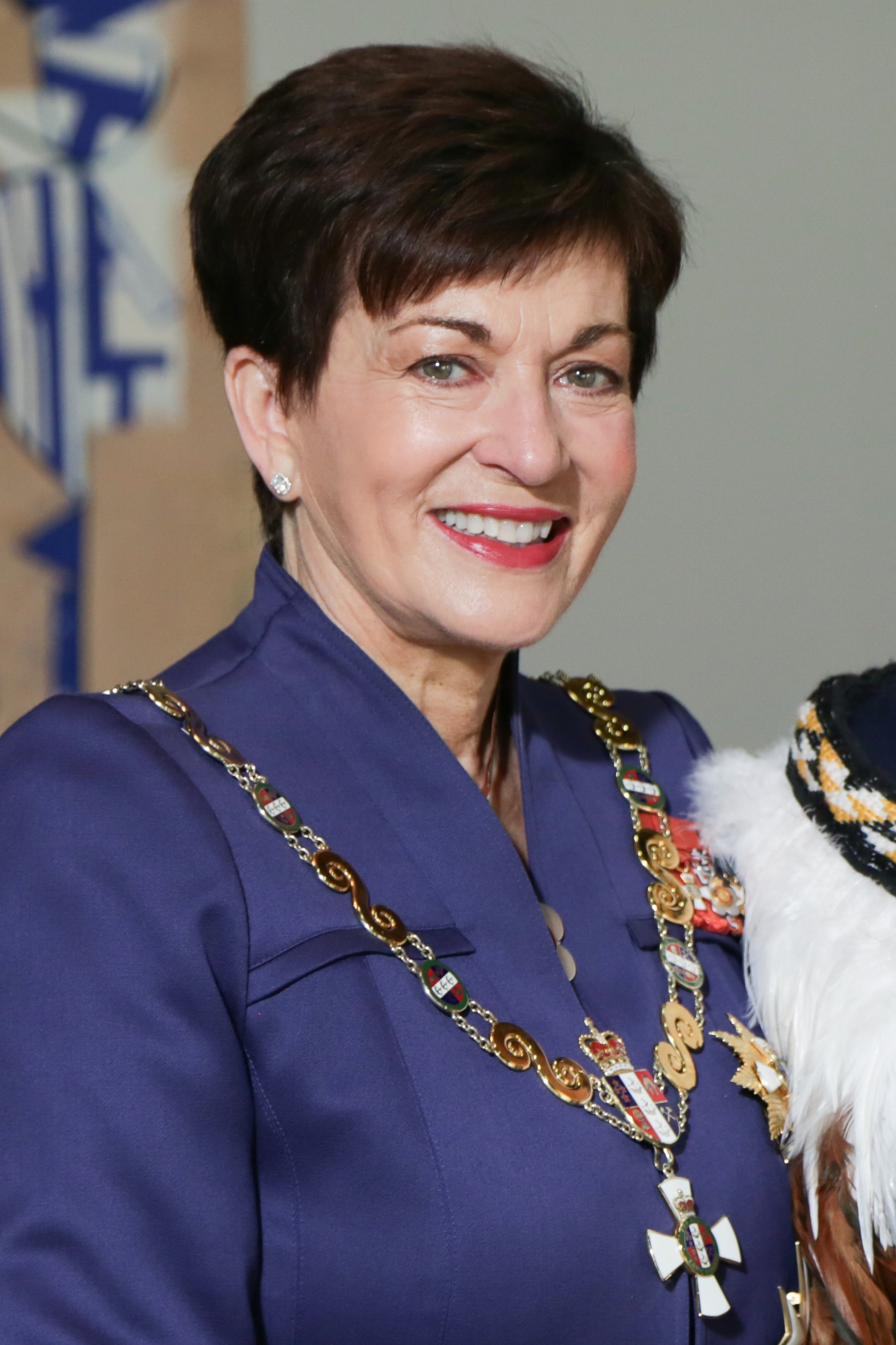 Dame Patsy reddy, the governor-general of New Zealand, wearing insignia